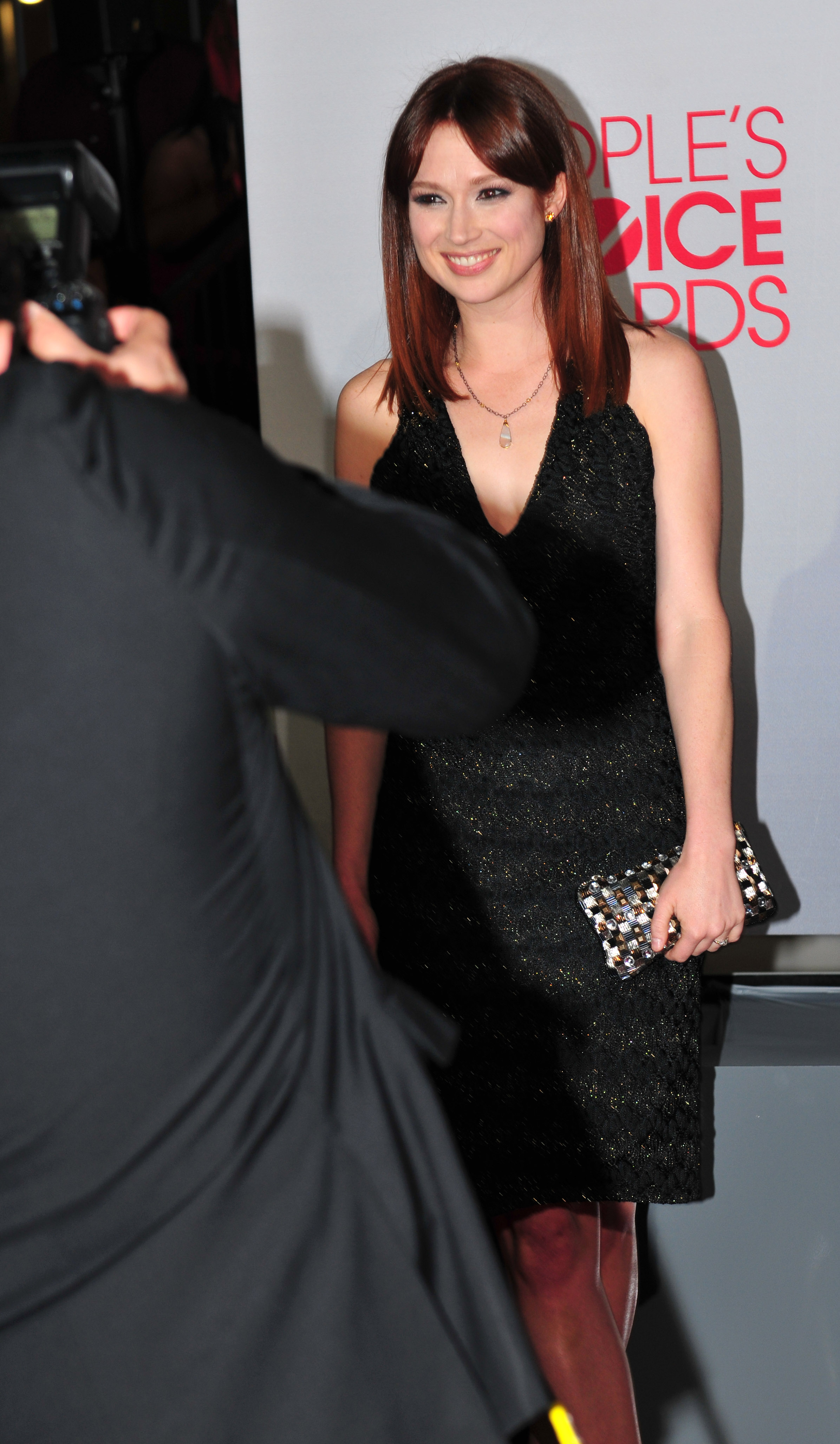 Ellie Kemper on the red carpet at the 38th People's Choice Awards on January 11, 2012, at the Nokia Theatre in Los Angeles, California. (JJ Duncan/ )